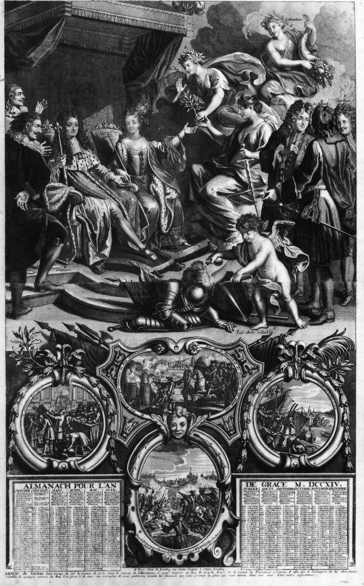 Louis XIV. 1714 peace between France and Savoy